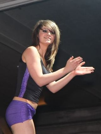 Britani Knight applauding the crowd at Swiss Championship Wrestling's Winter Heat 2010 in November 2010. Cropped from original.